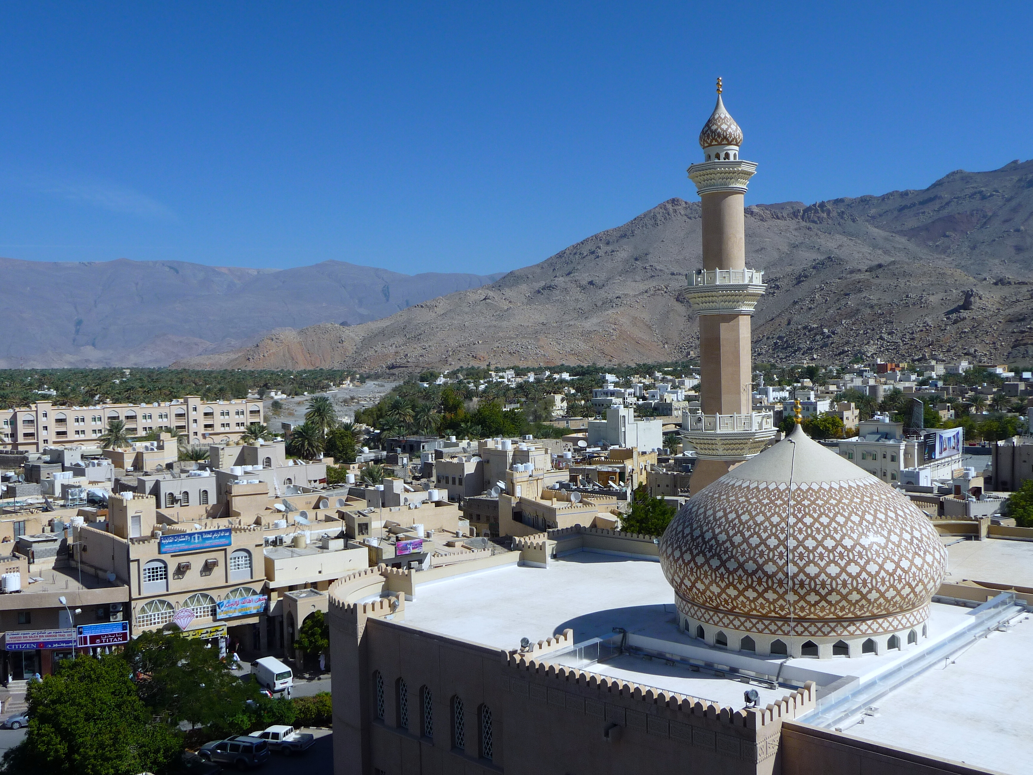 View of Nizwa and its Grand Mosque from the fort (Al-Dakhiliyah Region, Oman).